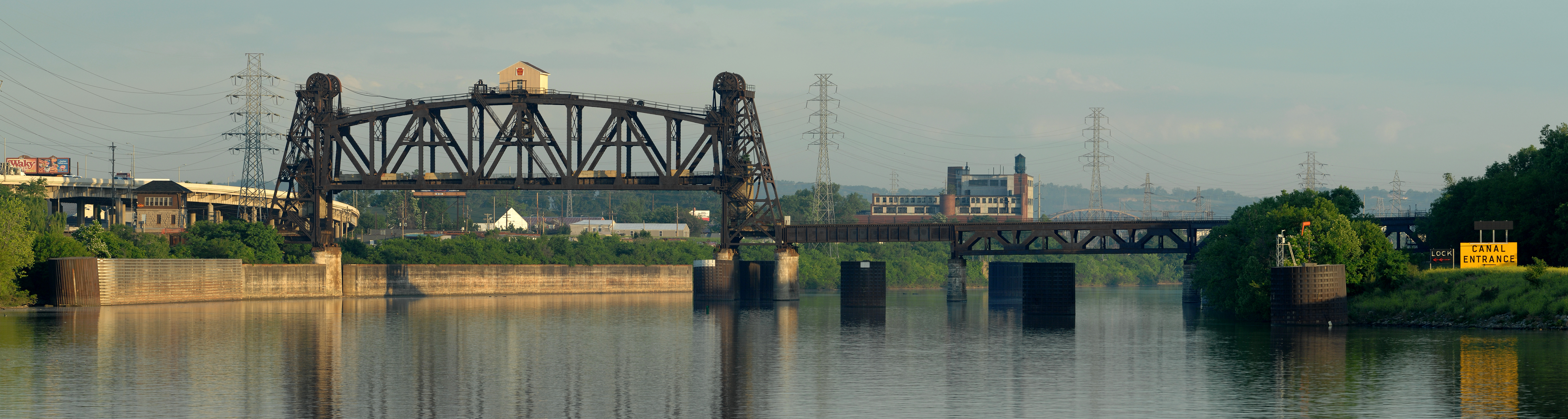 This is a panoramic image of the east entrance to the Portland canal, Louisville, Kentucky. The canal, in conjunction with the McAlpine Locks and Dam, provides a navigable route around the Falls of the Ohio. The vertical lift section of the 14th street bridge is in the raised position and is lowered for train traffic.